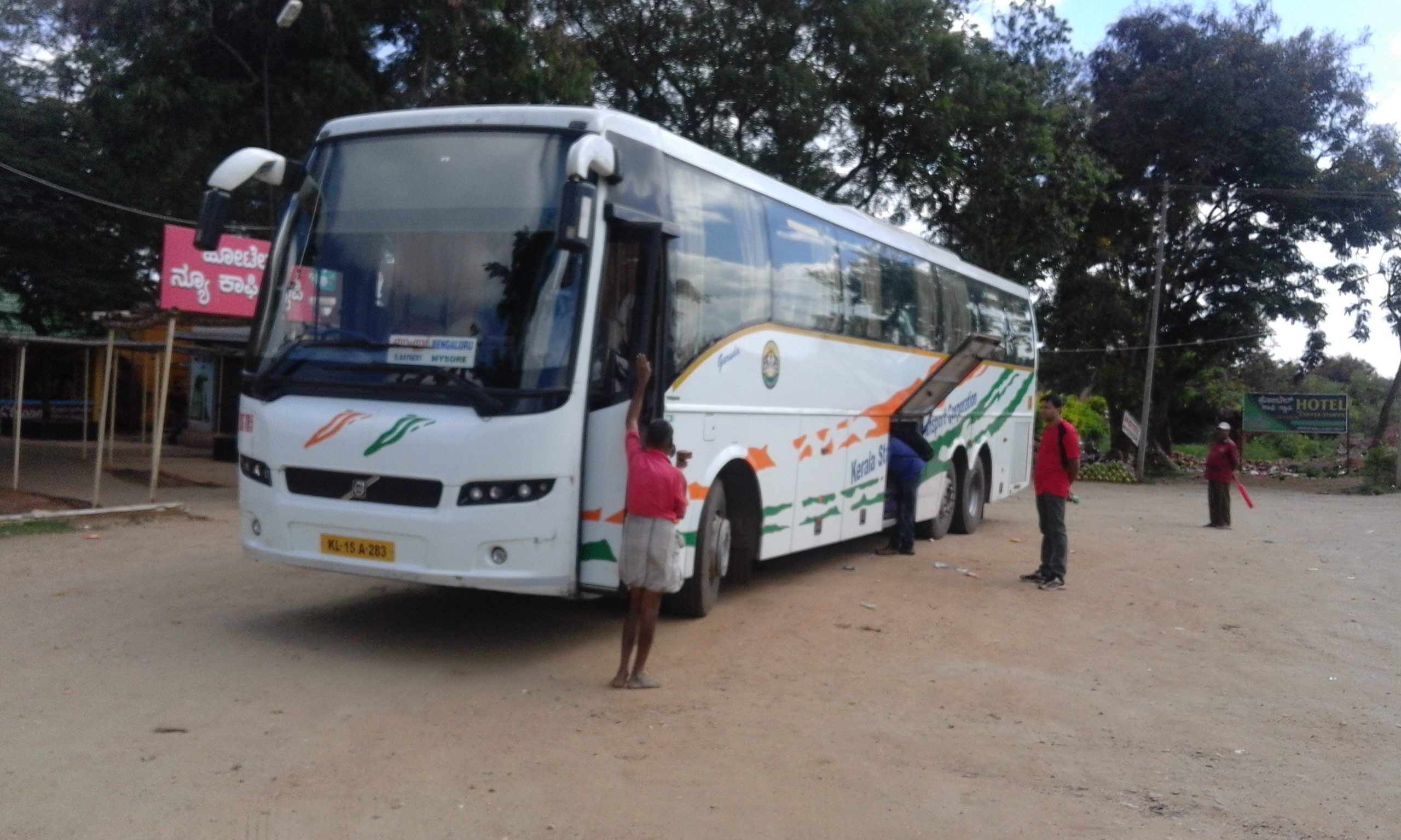 Kerala RTC bus plying from Kozhikode to Mysore